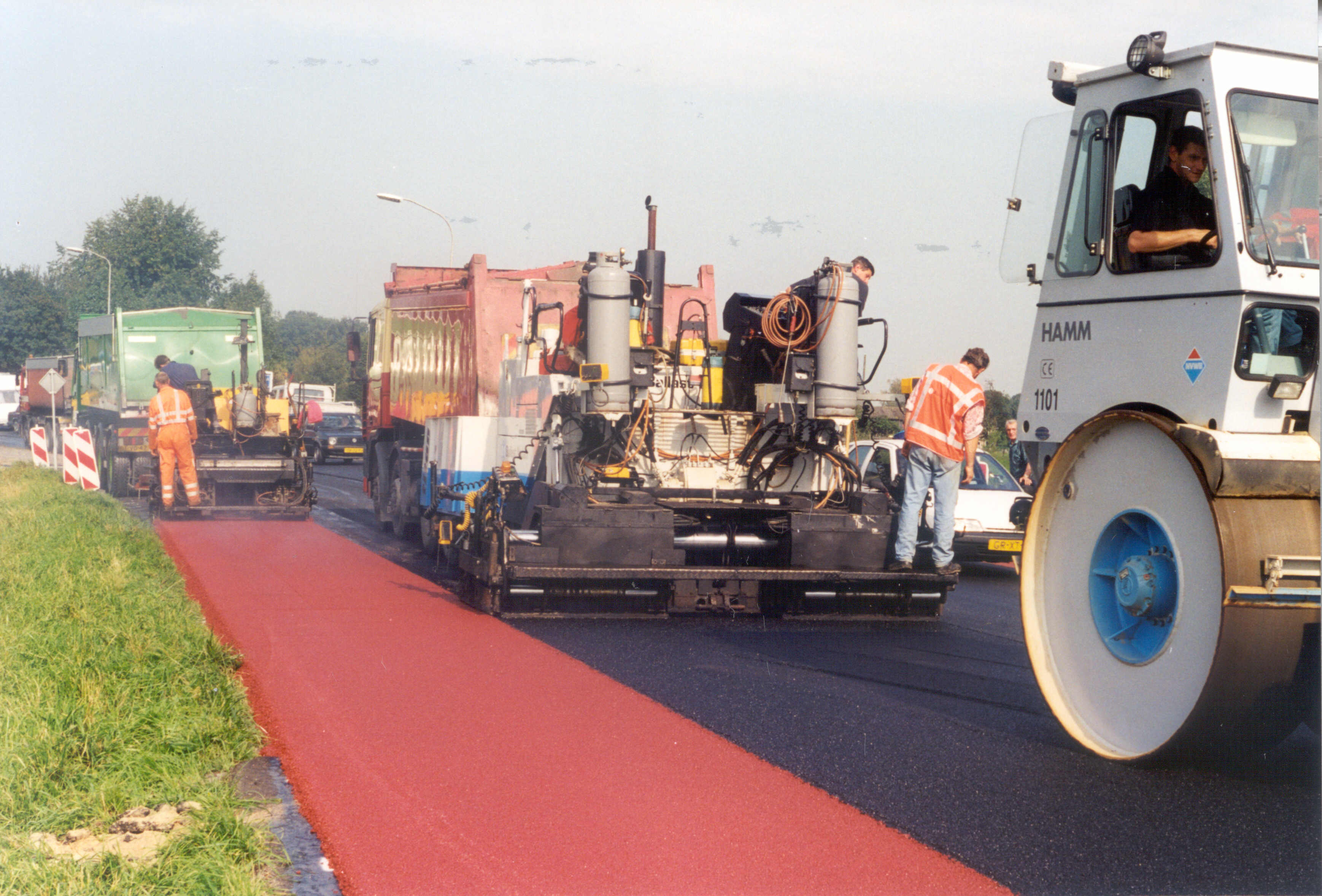 Construction of a red coloured asphalt cycle path